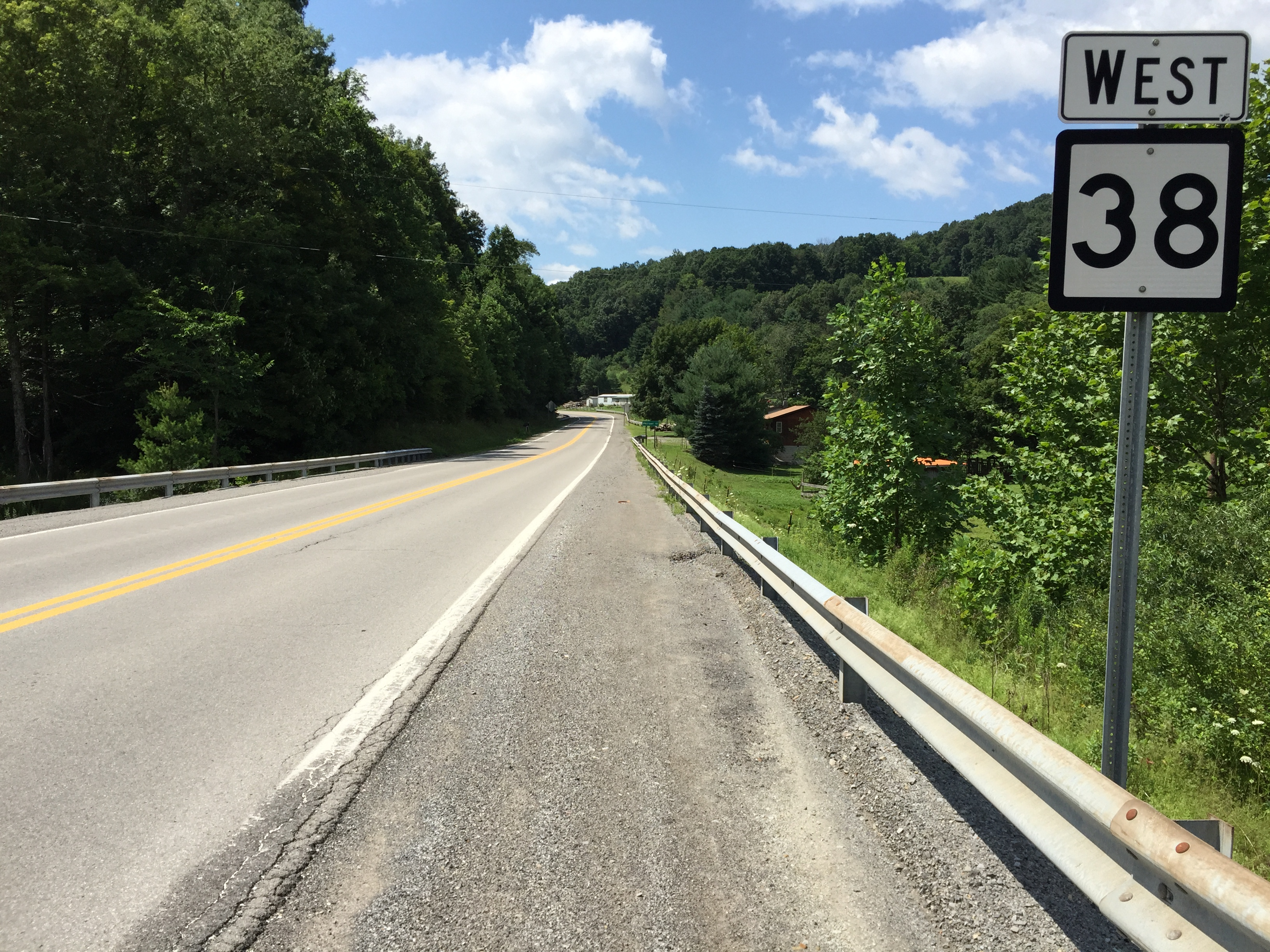 View west along West Virginia State Route 38 at West Virginia State Route 92 (Morgantown Pike) in Nestorville, Barbour County, West Virginia